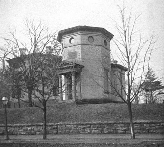 Photograph (circa 1901) of the Daniel S. Schanck Observatory (an astronomical observatory built 1865) on the Queen's Campus of Rutgers College (now Rutgers, The State University of New Jersey). Unknown photographer. Other information This book can be found at Google Books